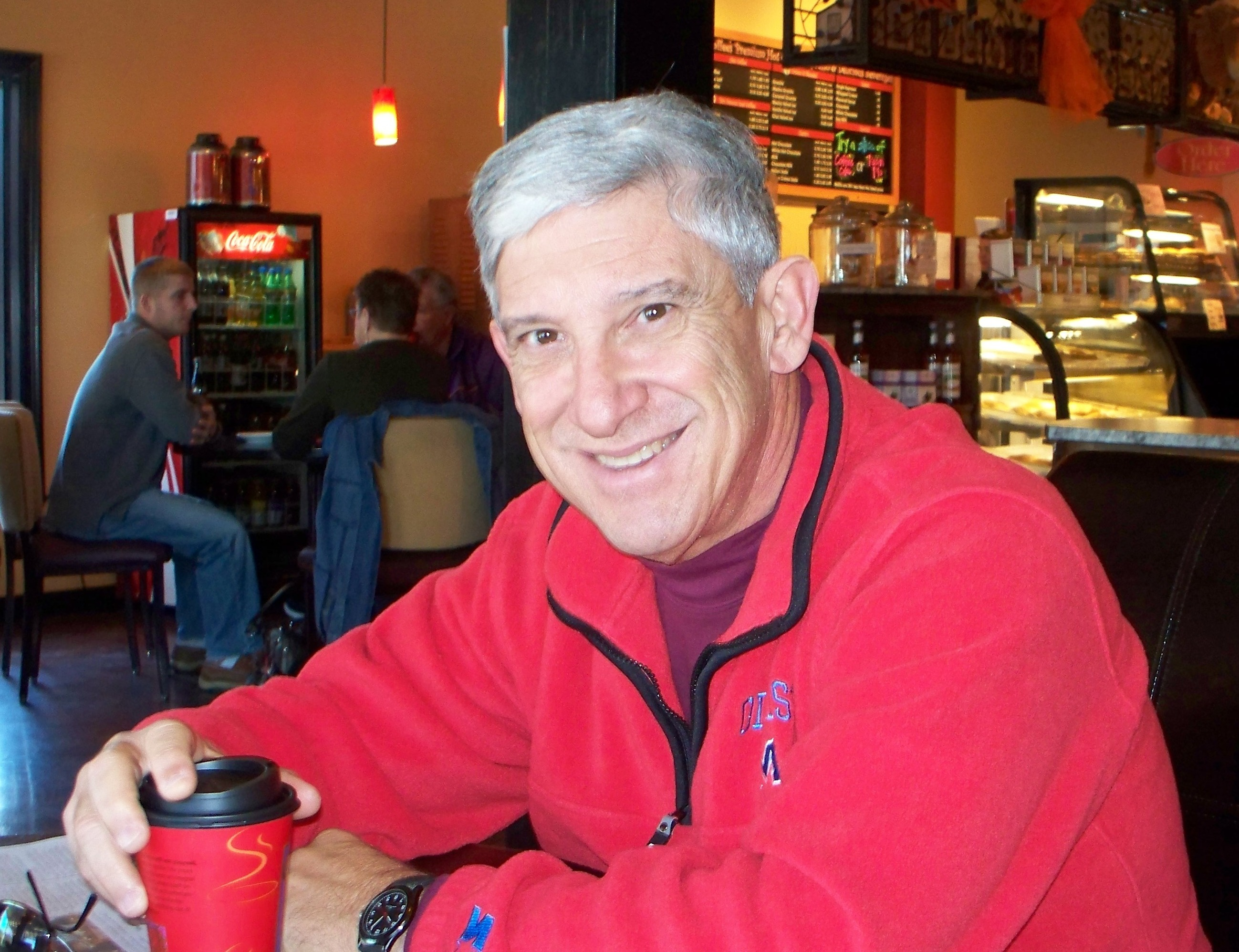 Nick Bruno likes coffee.